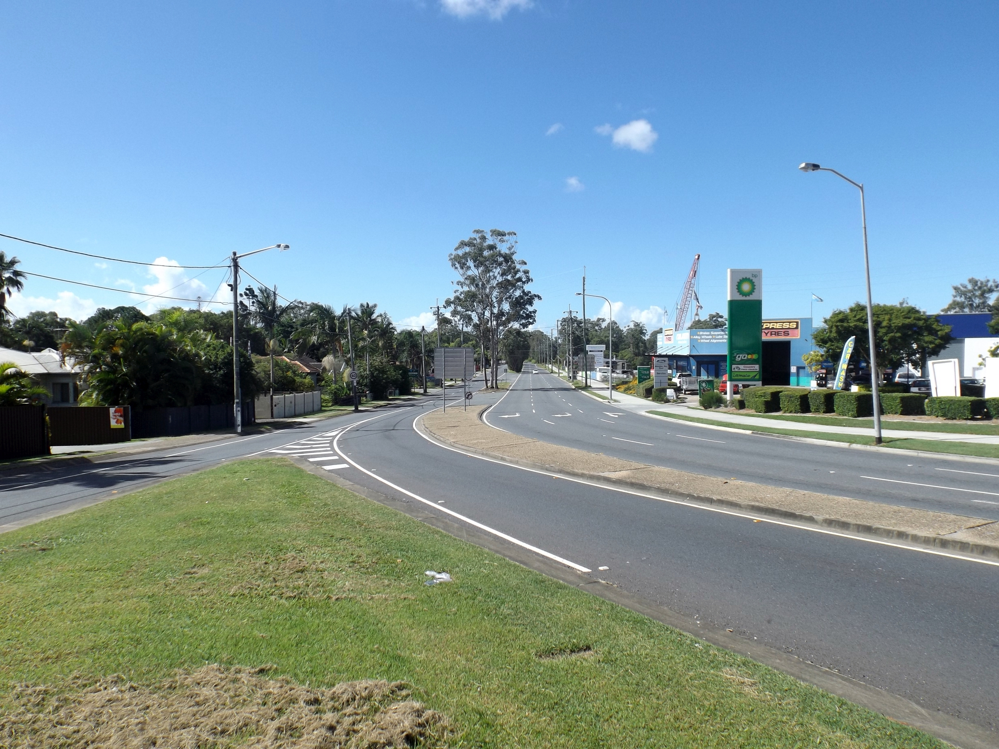 Photo of Wynnum Road at Tingalpa, Brisbane, Queensland, Australia.